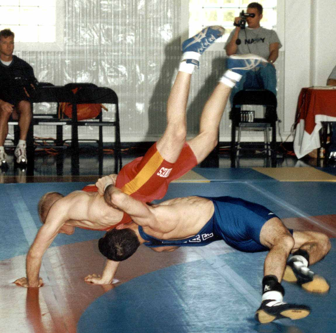 Head over heels, Senior Airman Jeffery Cervone of Peterson Air Force Base, Colo., throws Staff Sgt. David Laymon of Security Battalion, Marine Corps Base Quantico, Va., in a 54-kilogram Greco-Roman wrestling match. Cervone defeated Laymon, 8-2, March 17 and went on to win his weight class in the 2000 Armed Forces Wrestling Championships at Naval Air Station Whiting Field, Fla. Photo by Harve Shiplett.